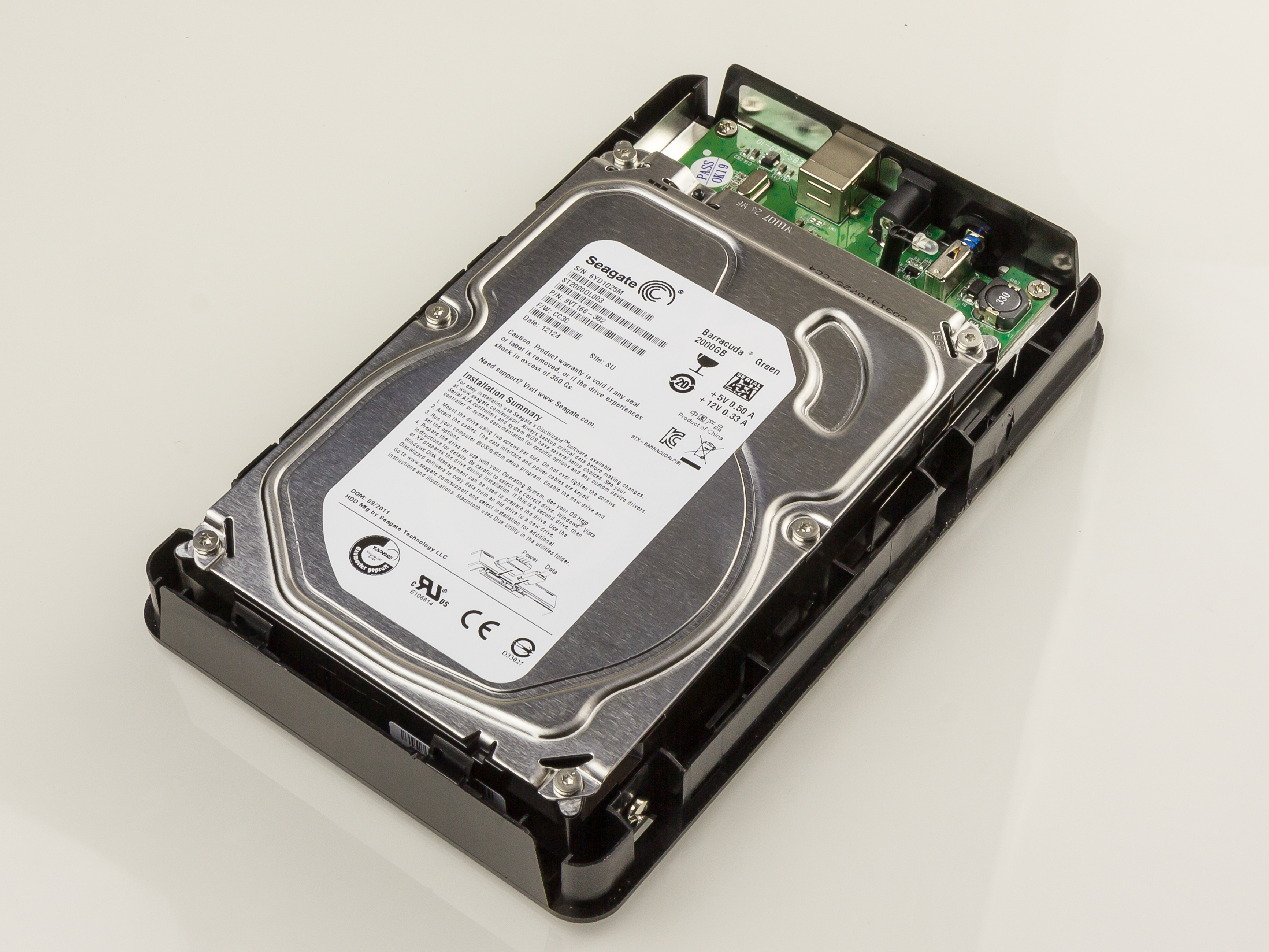 Airy by CnMemory, external hard disk. Distributor: "Chips and More GmbH". Inside: Seagate Barracuda Green 2000GB (ST2000DL003)